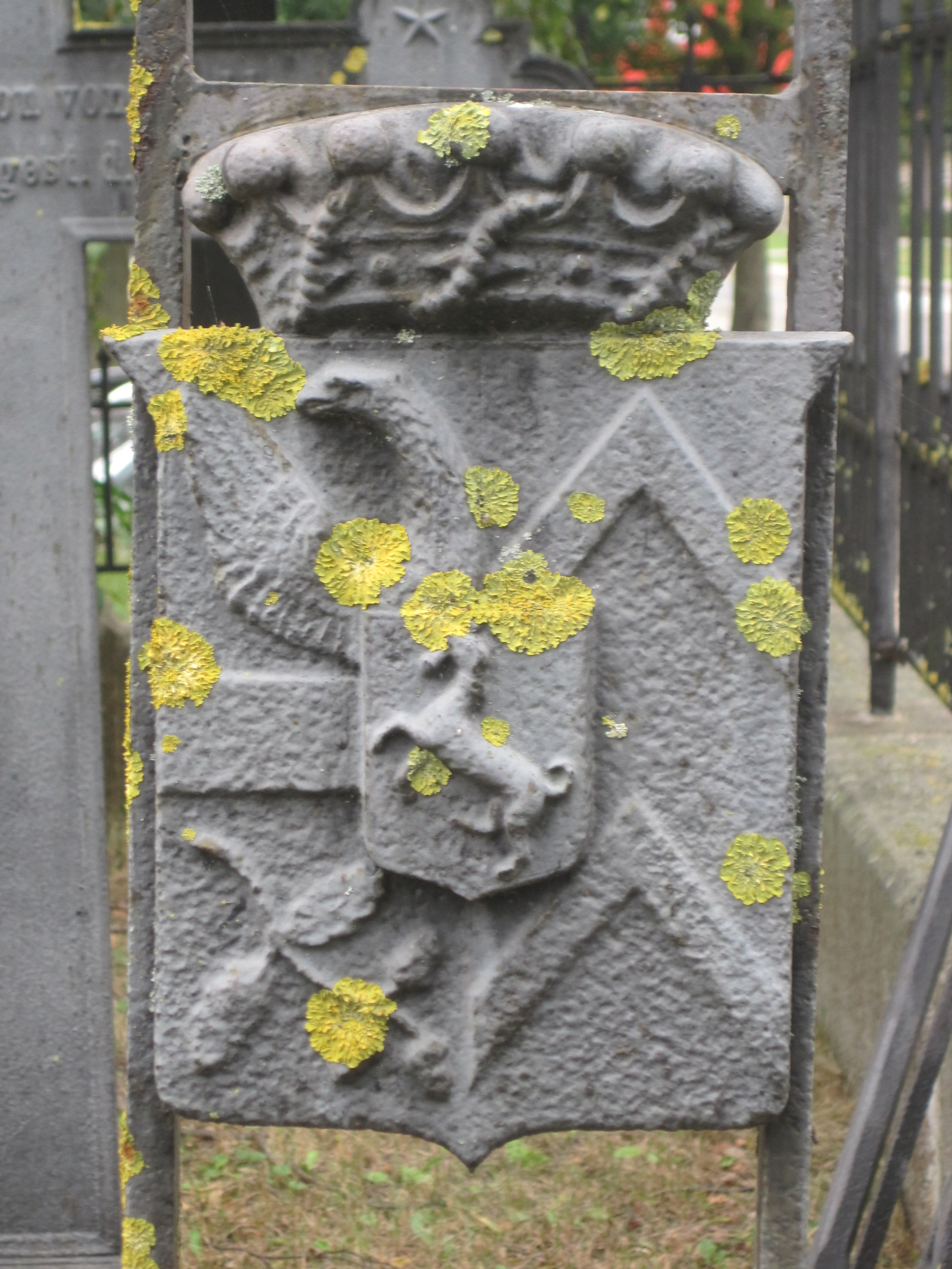 von Rodde family CoA in the cemetery of Tarnow church